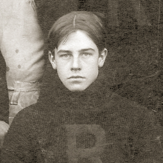 F.W (Casey) Baldwin at Ridley College School, St. Catharines, Ontario, circa 1900.